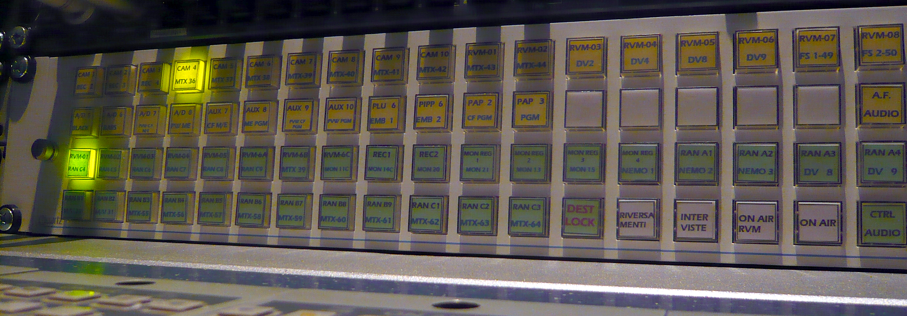 Evertz Quartz routing switcher control panel.